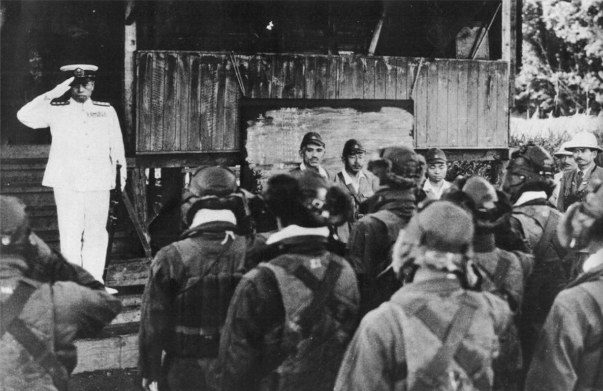 The last picture of Isoroku Yamamoto (1884–1943), taken shortly before his plane was shot down.